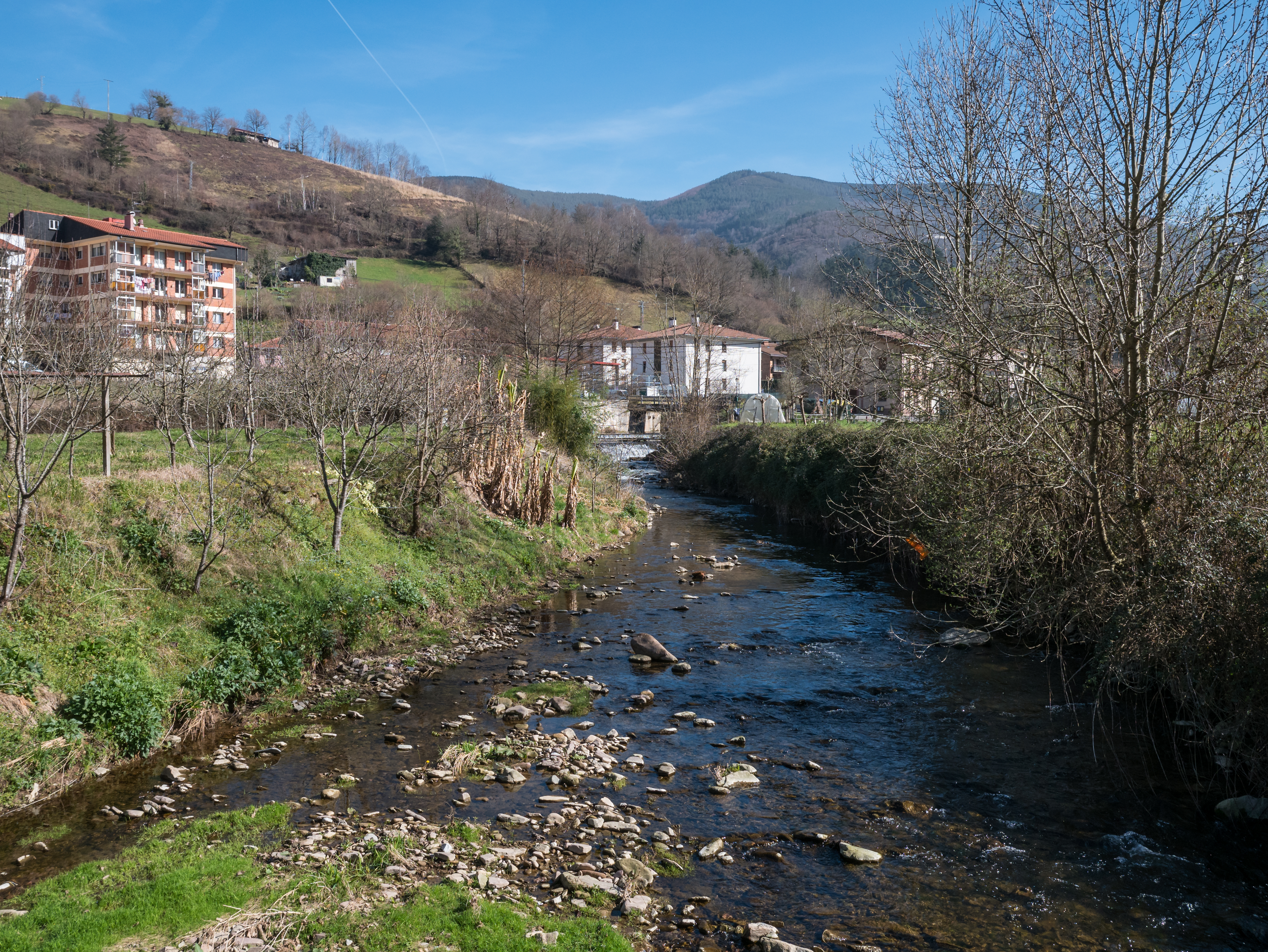 Elduain stream in Berrobi. Gipuzkoa, Basque Country, Spain